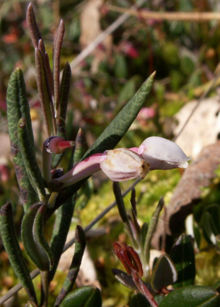 Andromeda polifolia, late flowering